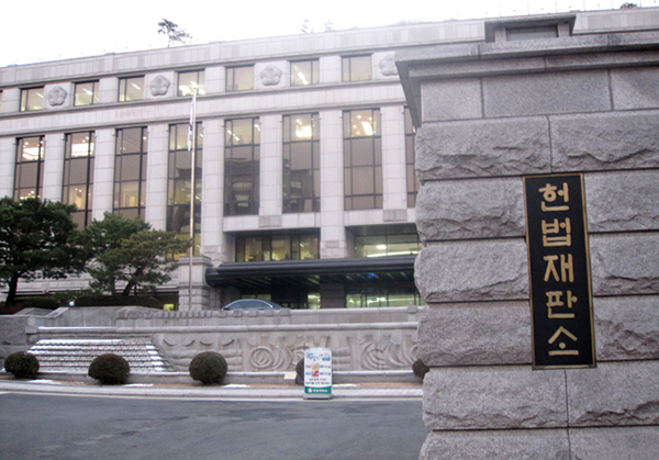 Constitutional Court of Korea front gate sign.